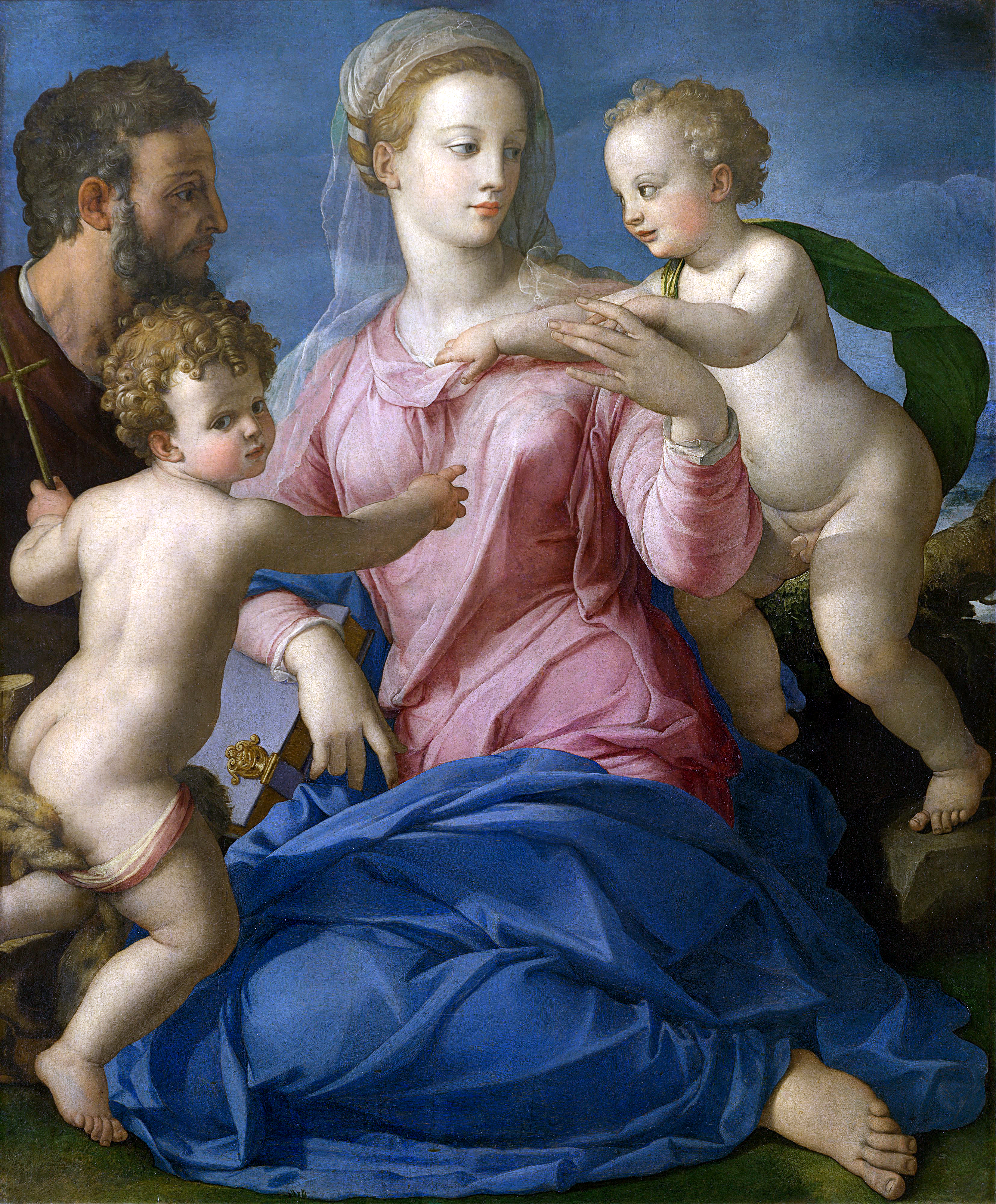 The Holy Family with the Infant Saint John the Baptist